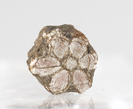 Cordierite, variety cerasite Locality: Sakuratenjin, Kameoka City, Kyoto Prefecture, Kinki Region, Honshu Island, Japan Size: 0.6 cm x 0.5 cm x 0.4 cm These beautiful and interestingly shaped thumbnail pseudomorph specimens are called cherry blossom ("ceras") stones for their obvious resemblance to cherry blossom petals. The pretty pink "petals" are in fact, trapiche cordierite crystals that have been pseudomorphed by muscovite/sercite. This piece is from temple grounds, where collecting is currently prohibited. Rarely available from this locale. It is accompanied by the former collection label.